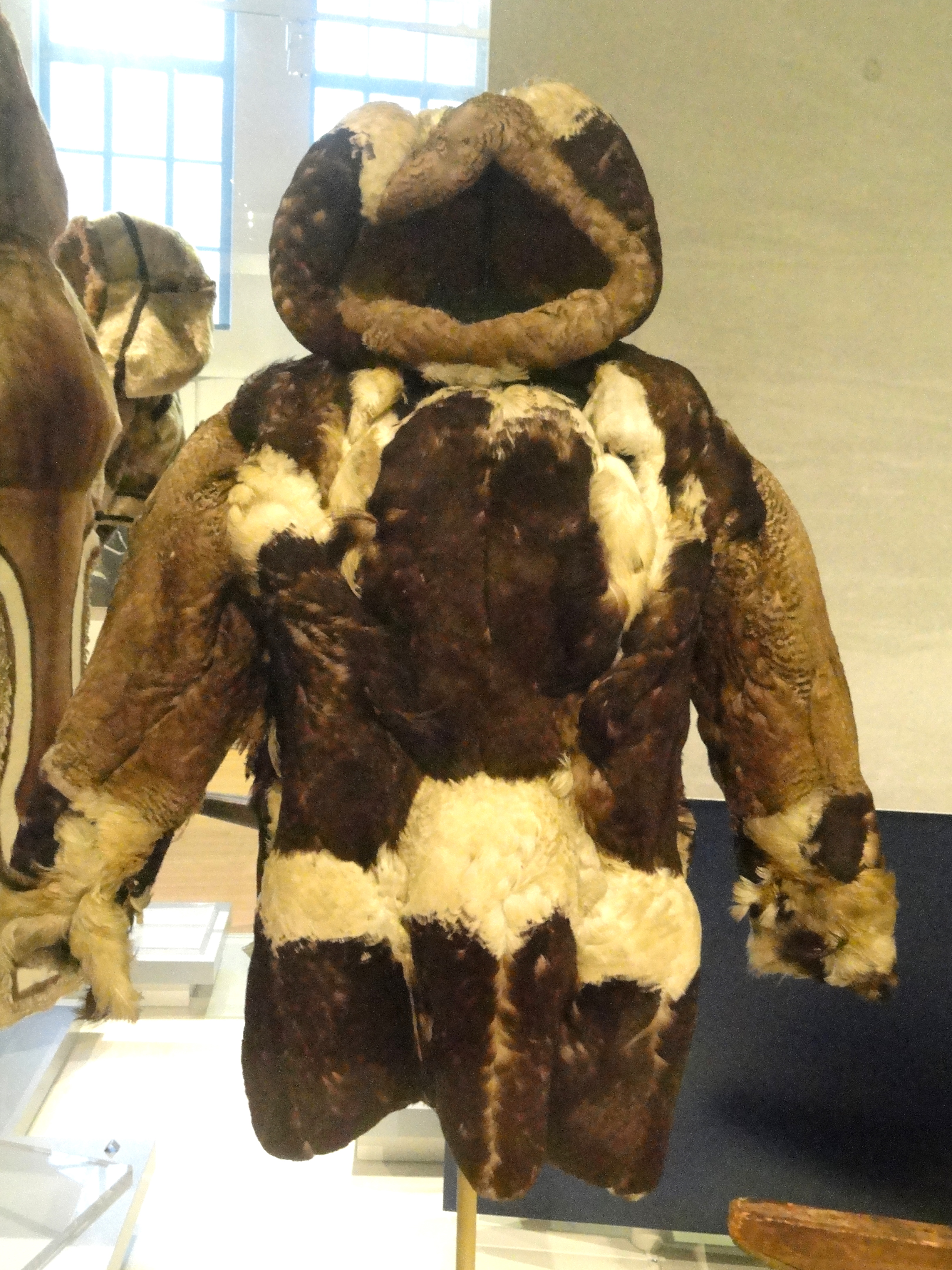 Exhibit in the Royal Ontario Museum, Toronto, Ontario, Canada. Photography was permitted in the museum. I took this photograph and release it into the public domain.